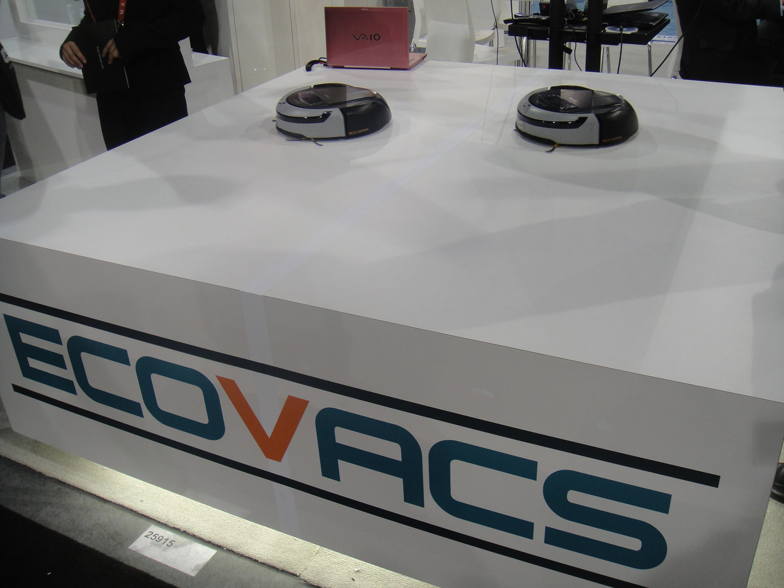 photo 2012 Pop Culture Geek taken by Doug Kline If you're interested in higher resolution versions of my images, contact me via my profile page.